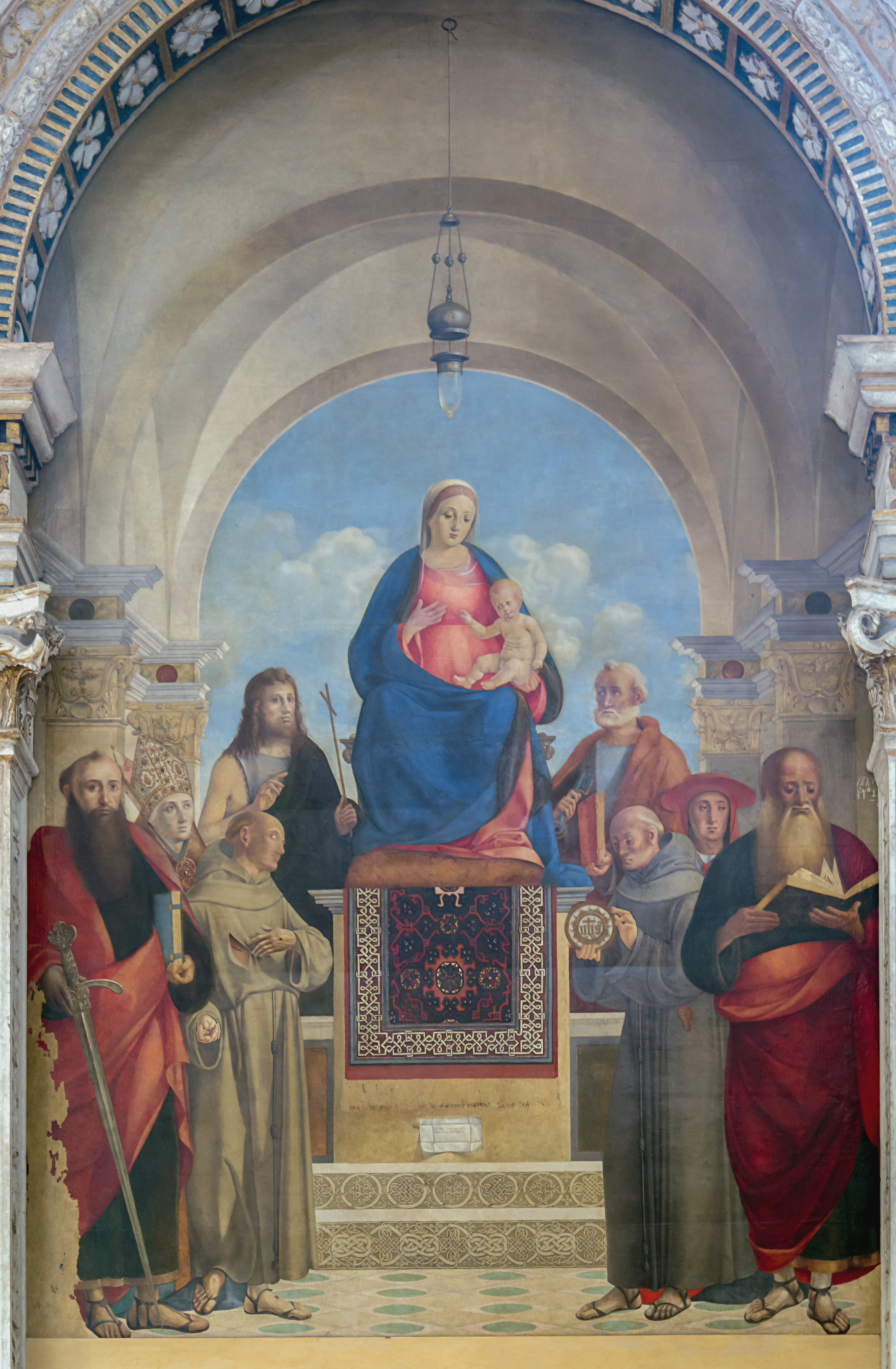 Santi Giovanni e Paolo, Venice in Venice. Right side of the nave, table altarpiece of St. Thomas Aquinas and St. Catherine of Siena. Venetian School, ca. 1475: "Madonna with Child and Saints". SS. Paul, Louis of Toulouse, Francis and John the Baptist (to the left); SS. Peter, Bernardino, Bonaventura and Jerome (to the right).